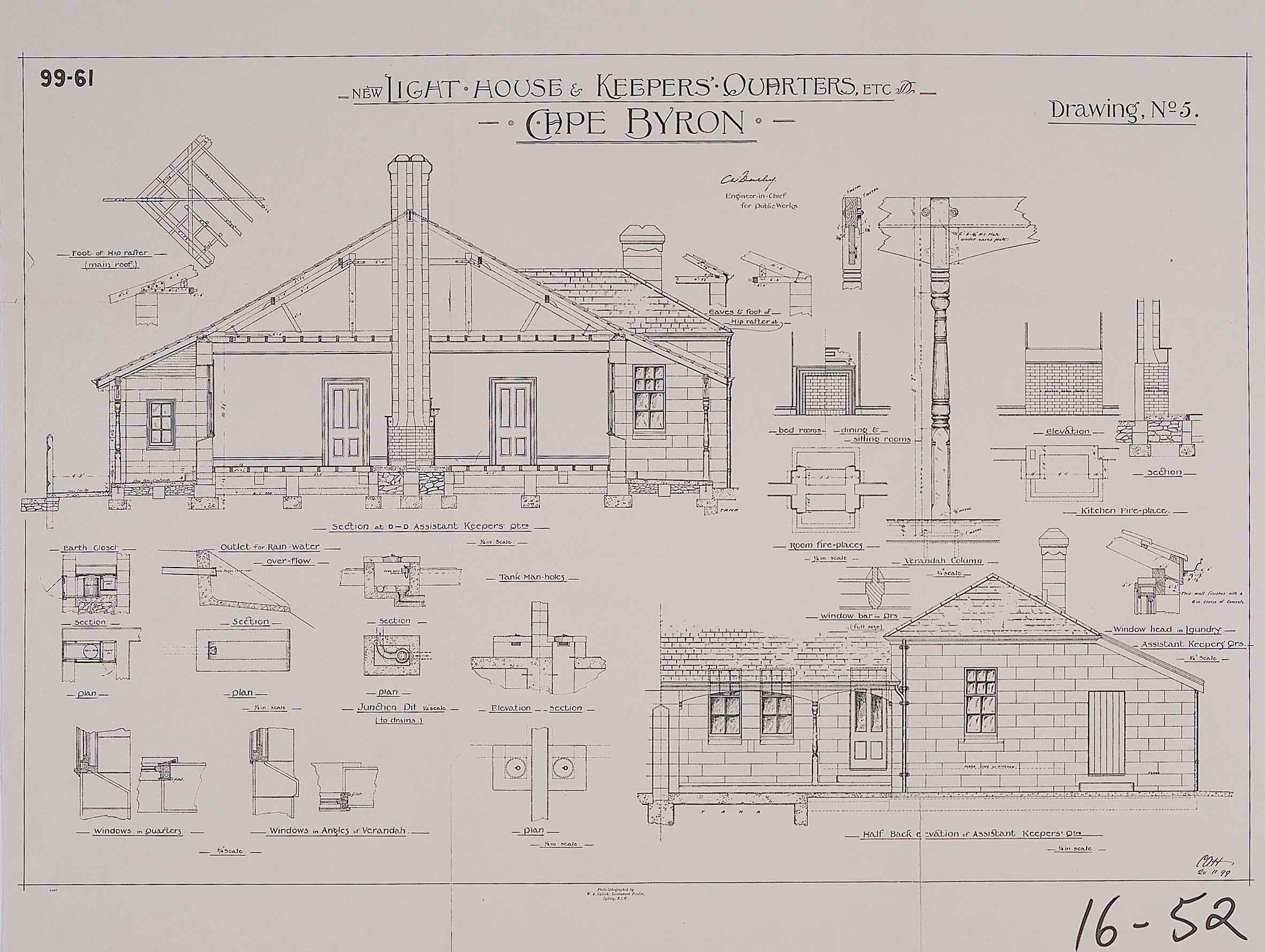 Cape Byron Light - keeper's quarters plans, 1899